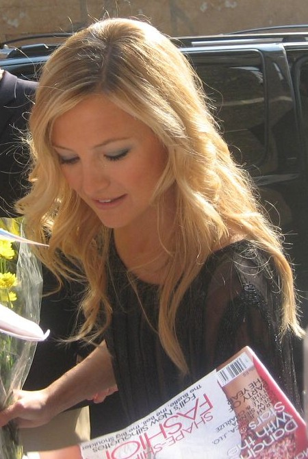 Kate Hudson after her appearance on the Late Show with David Letterman promoting You Me and Dupree